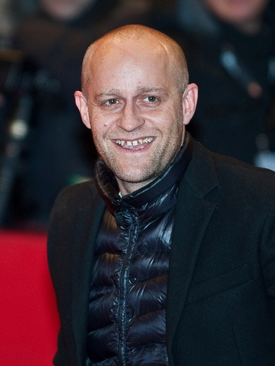 German actor Jürgen Vogel arriving at the opening of the 60th Berlin International Film Festival.